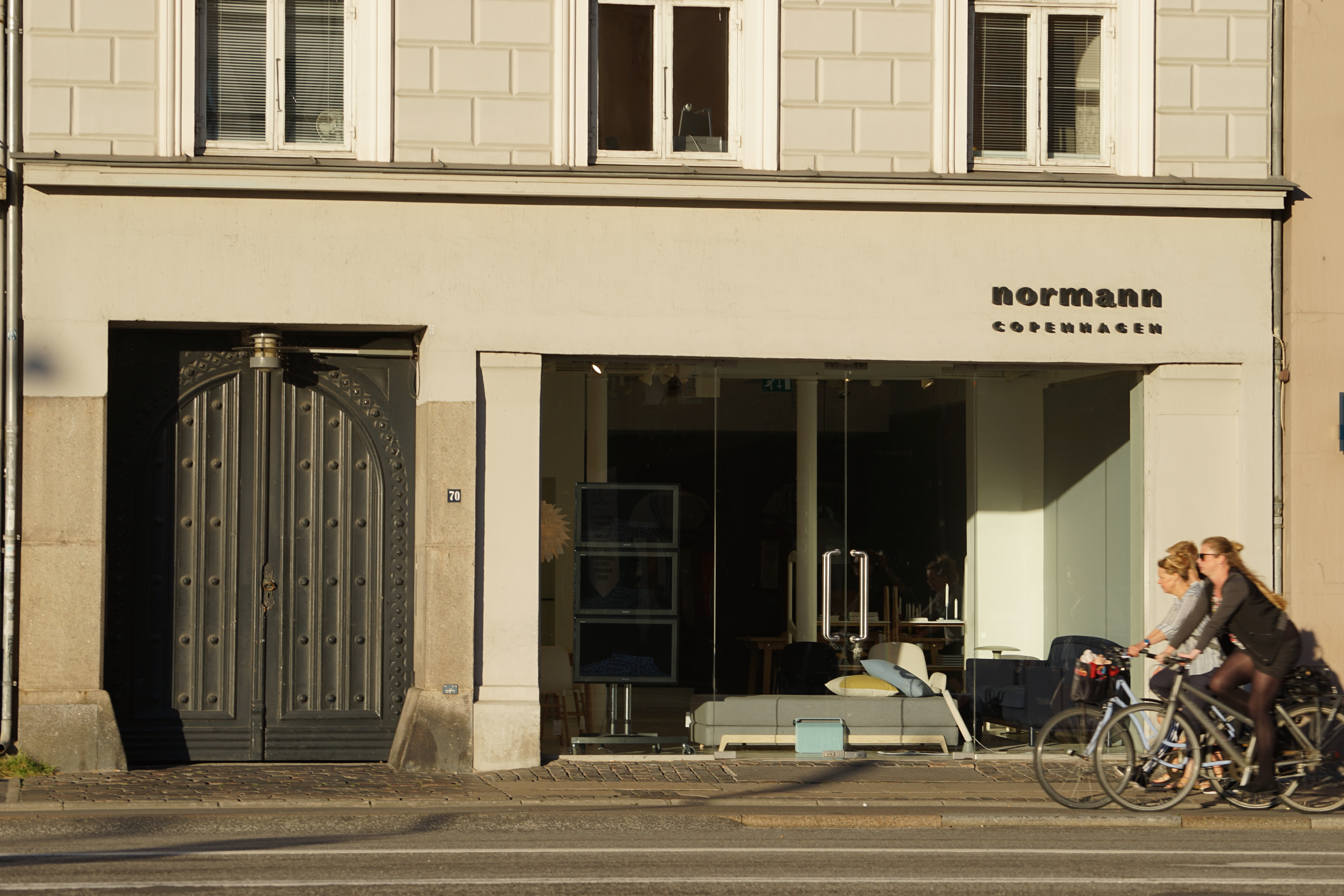 The store front of Normann Copenhagen at Trianglen, Østerbro